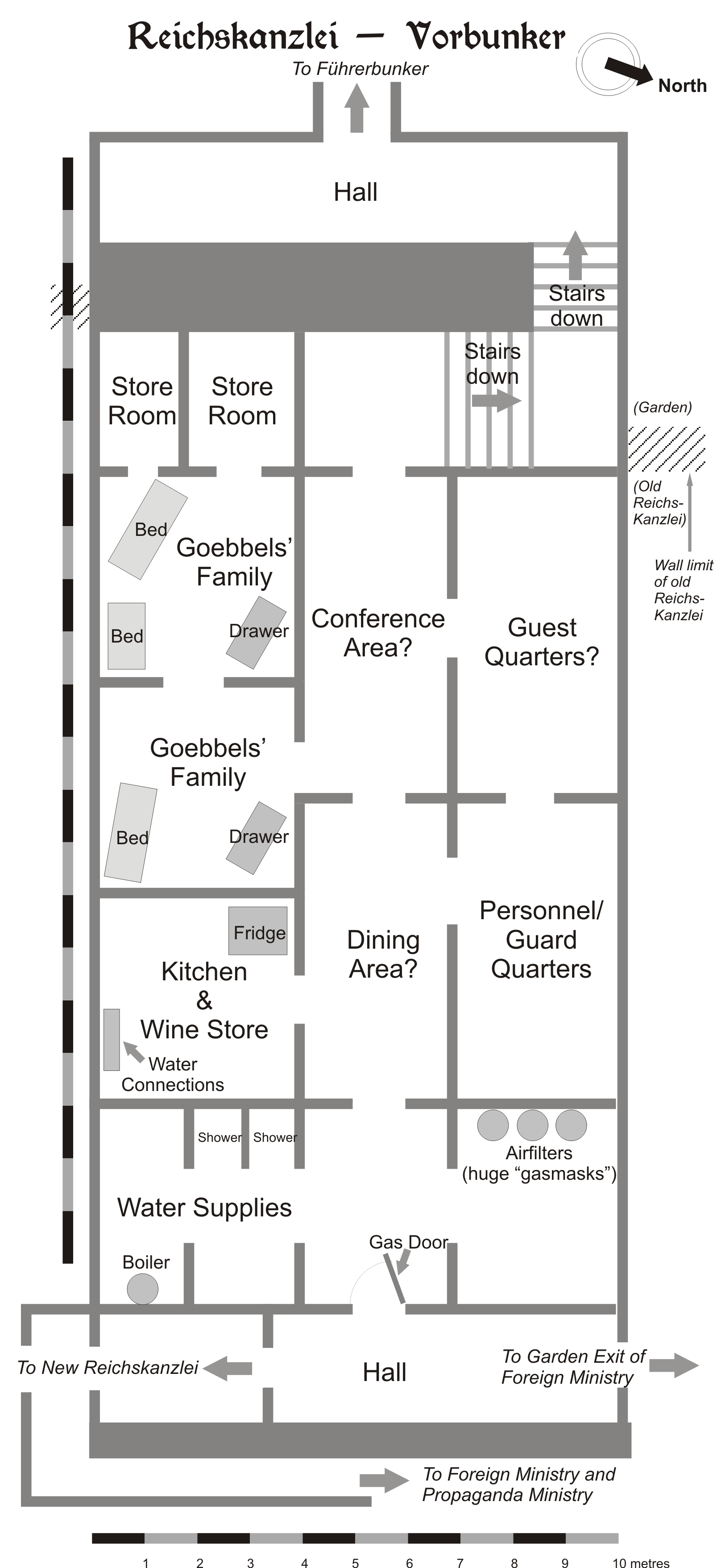 Map of the Vorbunker in Berlin, 1945. The Vorbunker was the "antechamber" bunker of the famous Fuehrerbunker. For more detailed information, please see below.